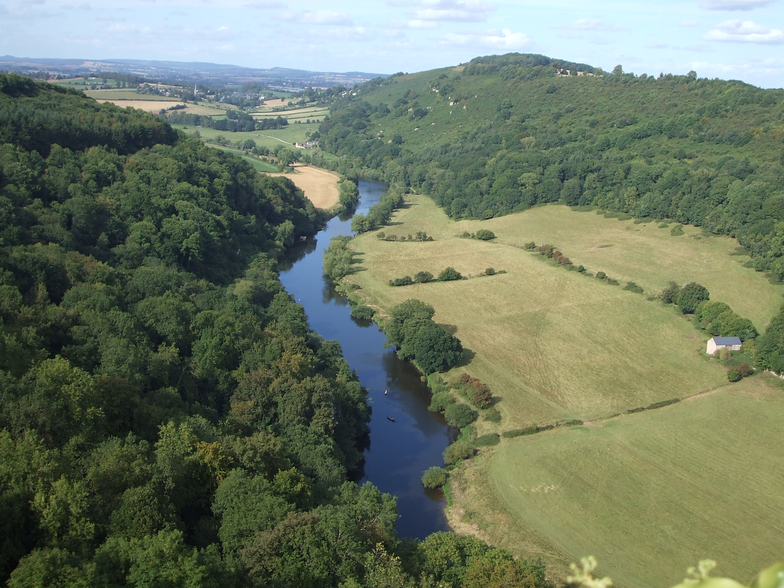 Forest of Dean/Gloucestershire/England - Taken by Robert Hindle, August 2006